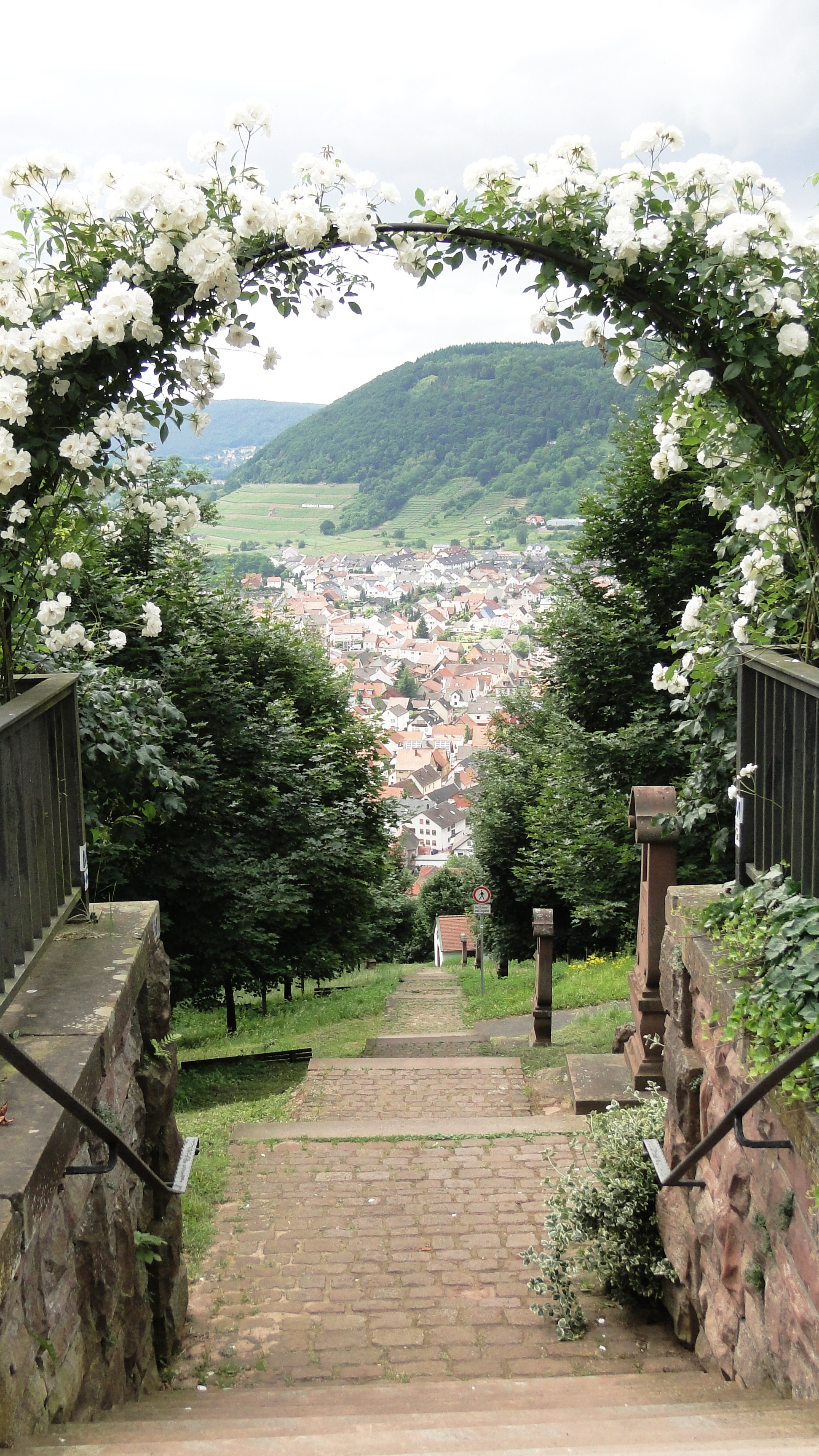 "Engelsstaffeln": 612 steps connecting Kloster Engelbach with Großheubach below, vineyards and the Busigberg in the background (Lower Franconia, Bavaria, Germany)